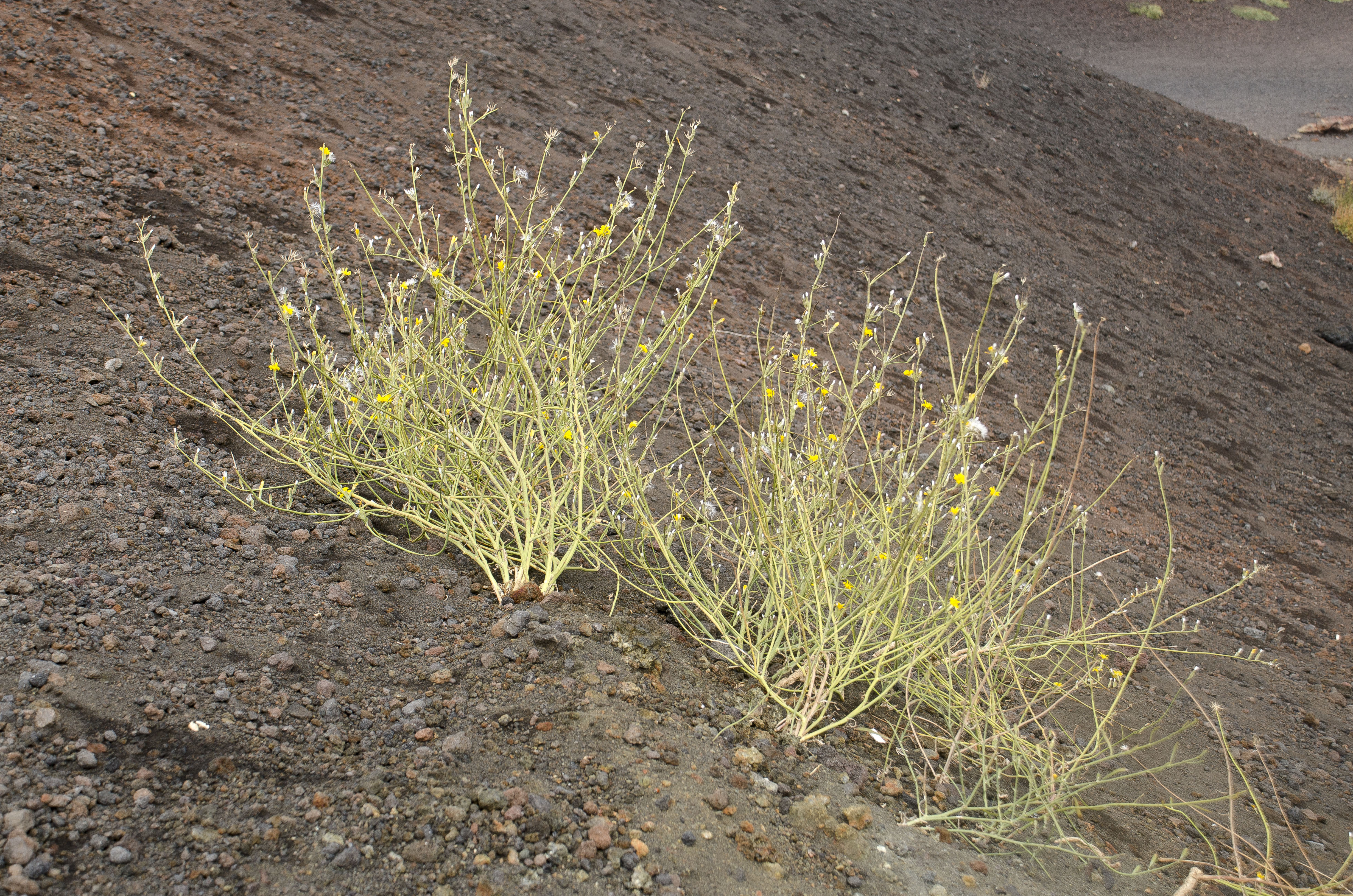 Rush Skeletonweed, Mount Etna, Sicily, ~2000m above MSL. Thanks to the members of Wikipedia:RBIO/B for the identification.